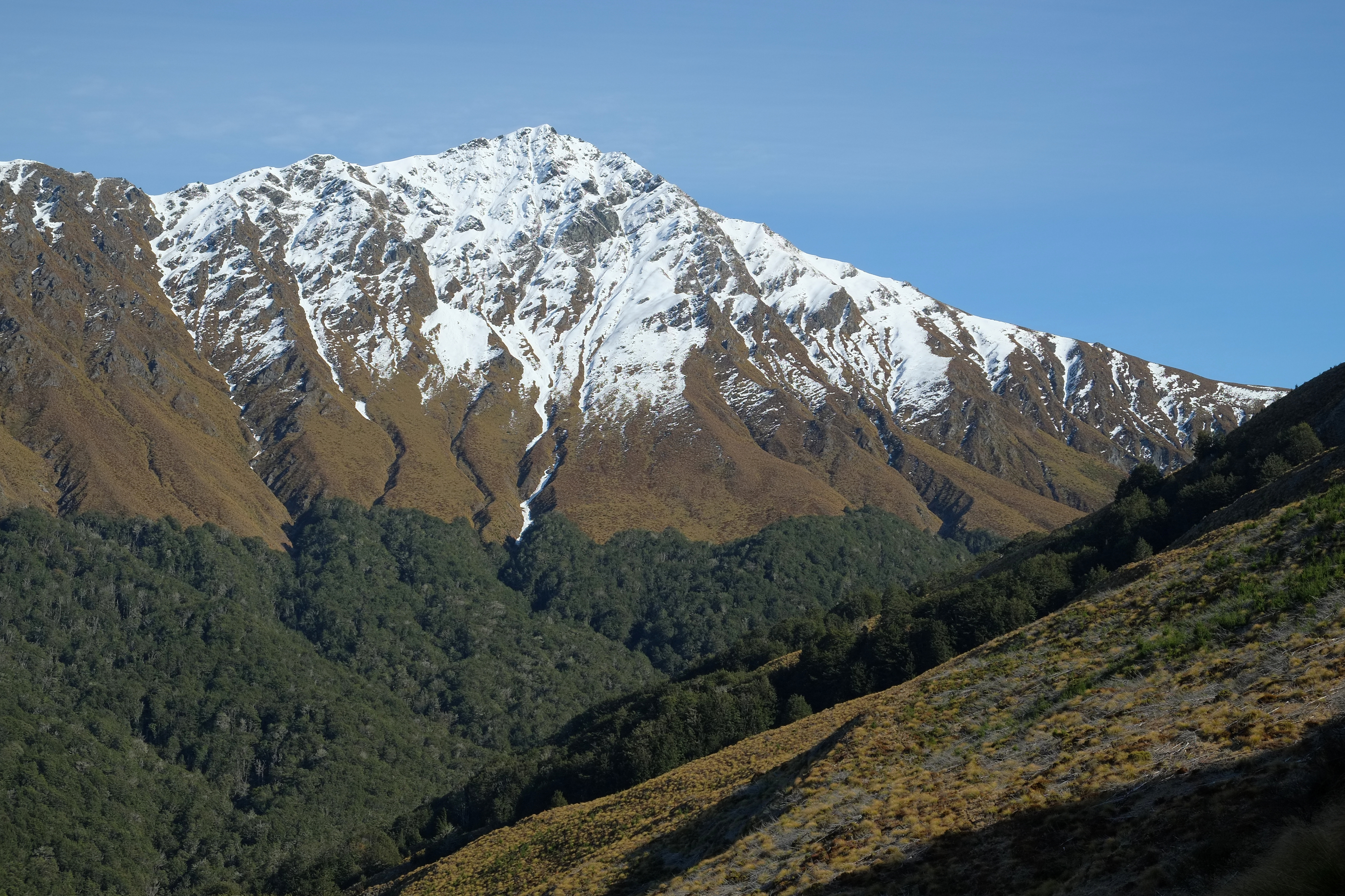 Snow-dusted Ben Lomond from near beginning of Ben Lomond track